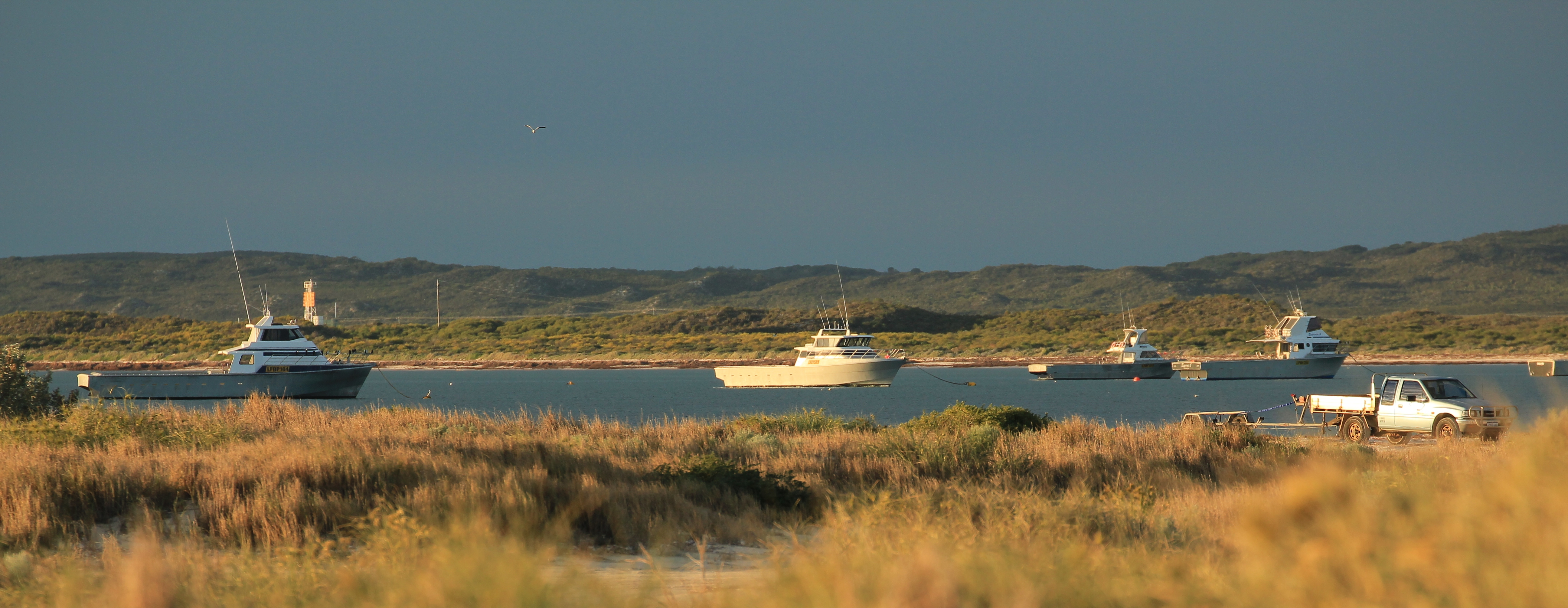 Boats in the "port" of Cervantes, Western Australia.